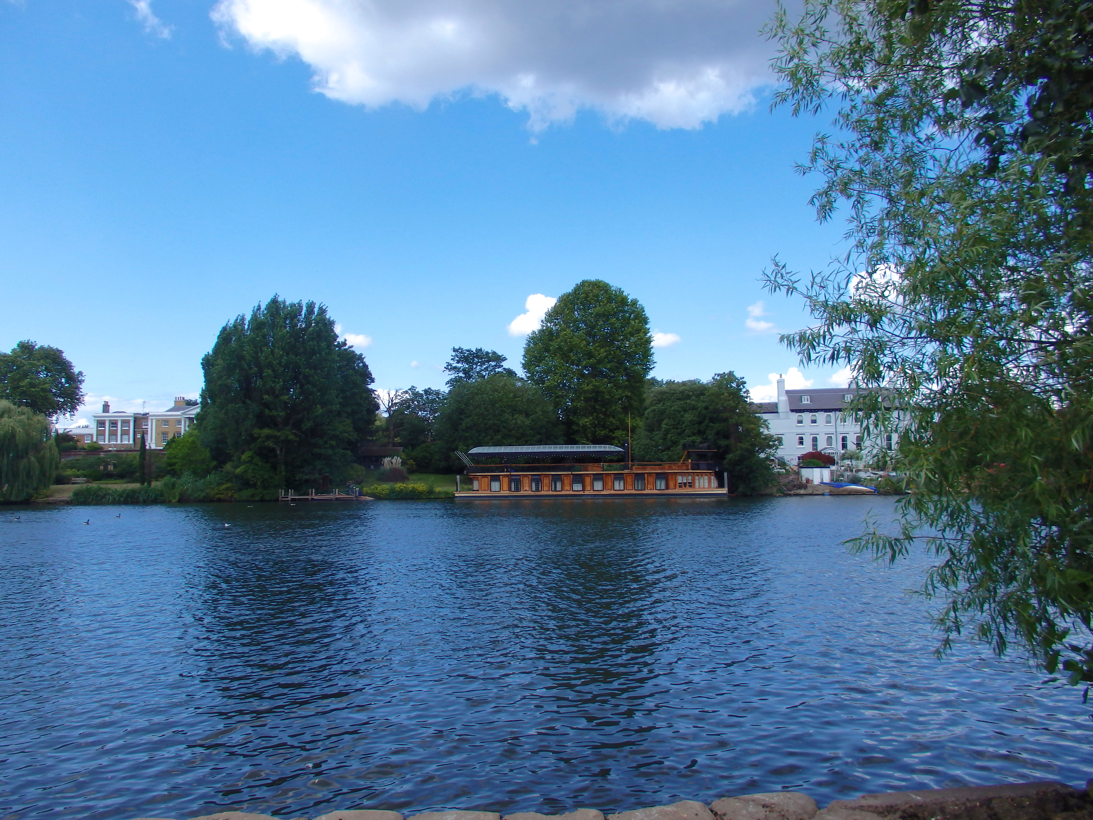 Astoria houseboat (view from Hurst Park)